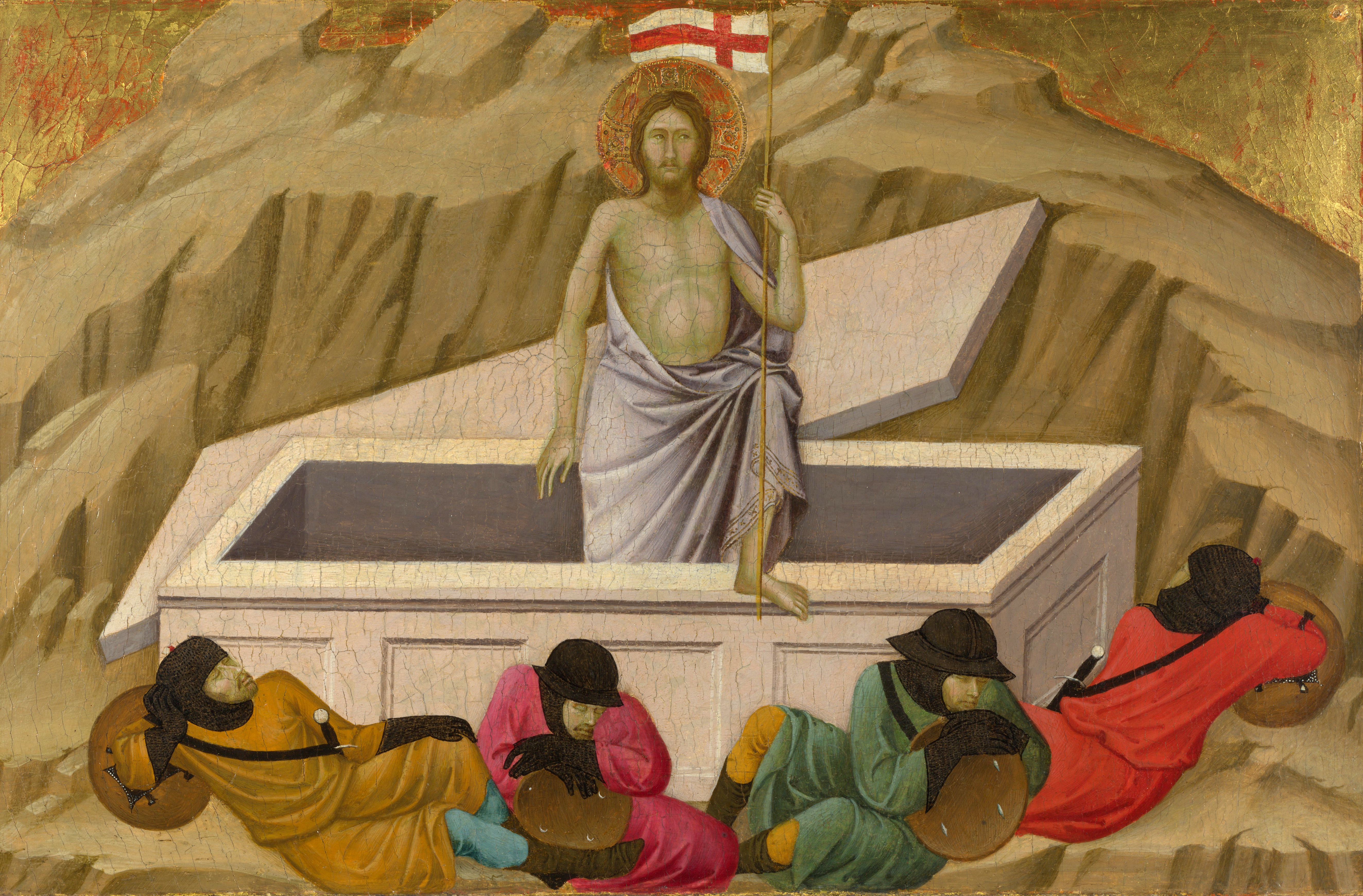 The Resurrection